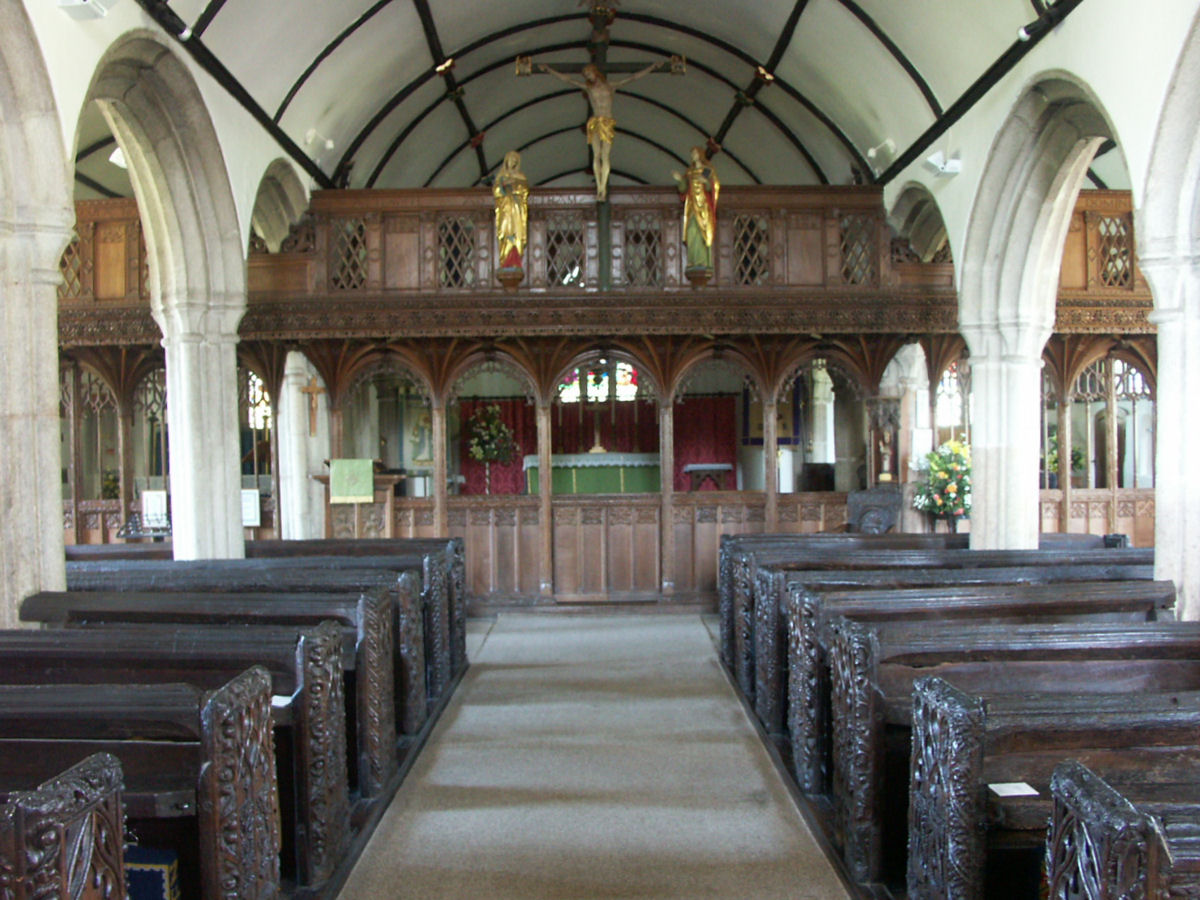 Church of St. Mellanus, Mullion, England